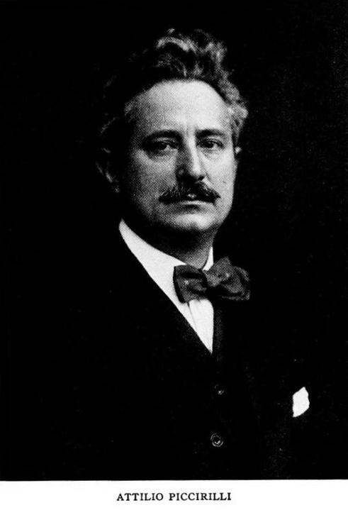 Photograph of Attilio Piccirilli (1866-1945), sculptor.